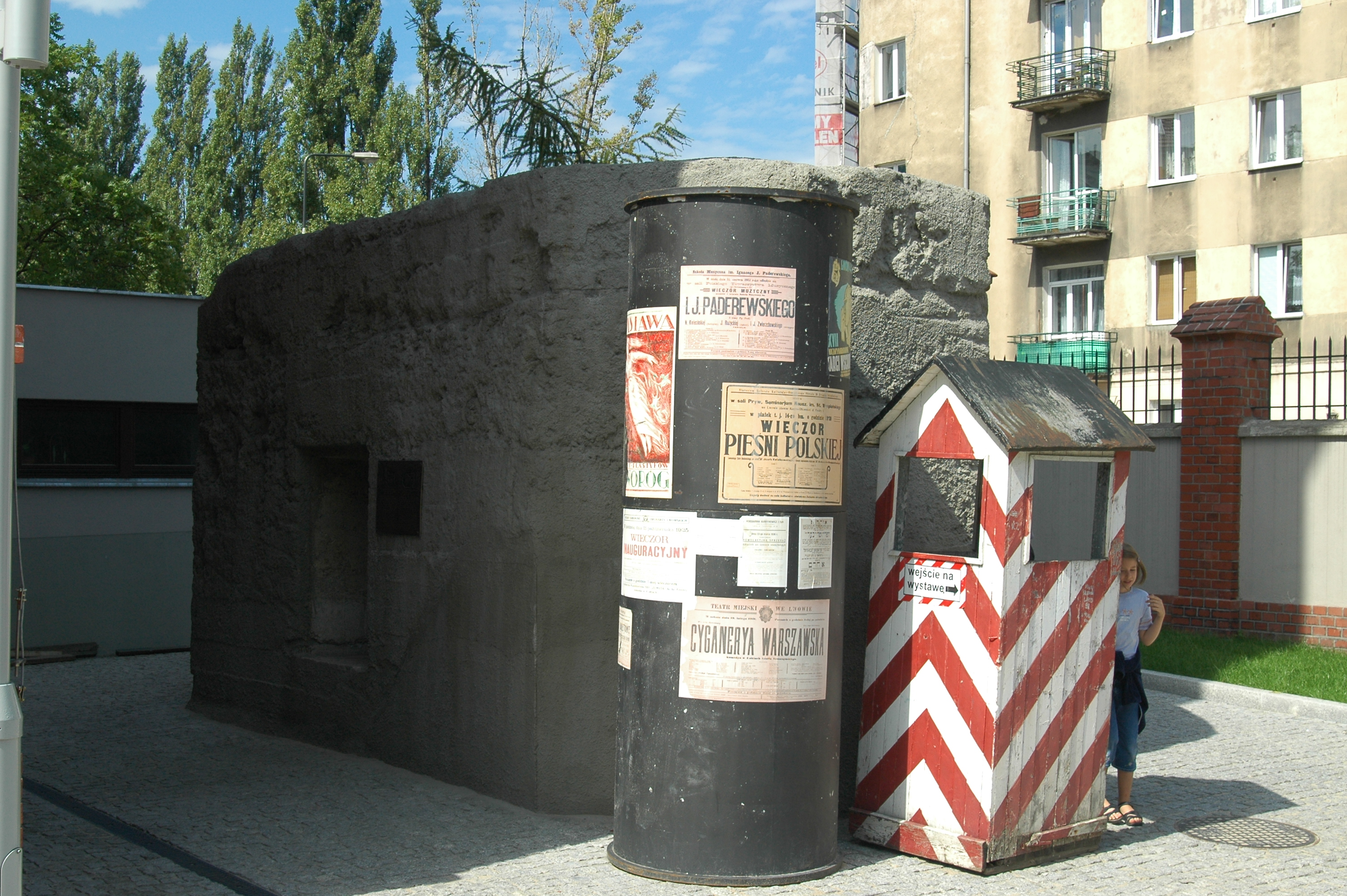 Made on a summer day in Warsaw's Warsaw Rising Museum; Tobruk-type pillbox as seen in the Warsaw Rising Museum. Refer to Warsaw_MPW_Tobruk_00.jpg for more details. rear view